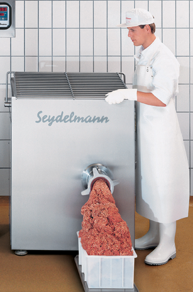 Industrial meat grinder